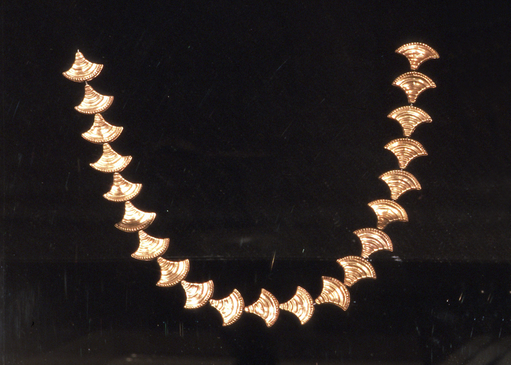 golden minoan necklace